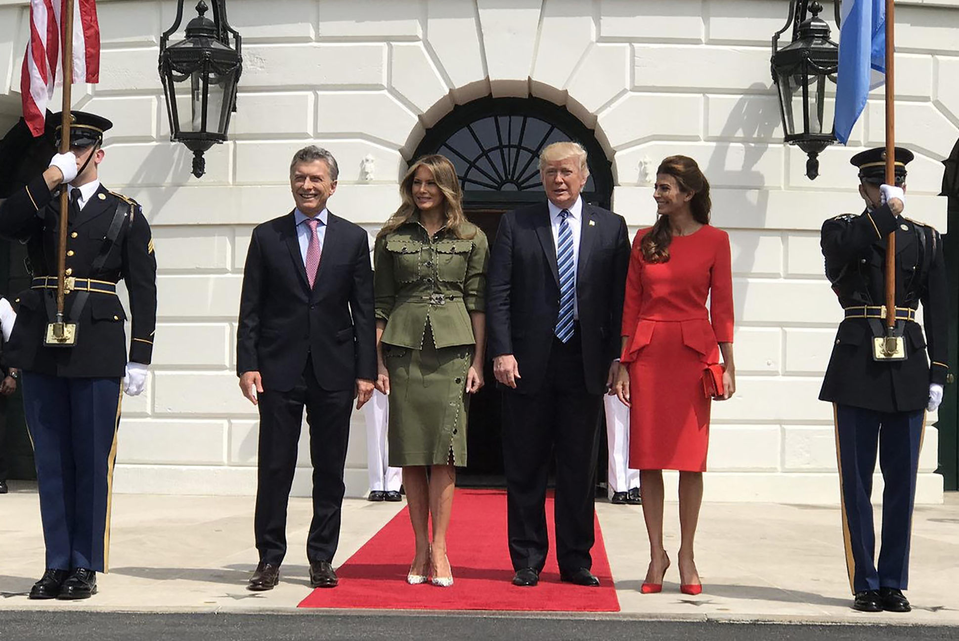 Mauricio Macri, Melania Trump, Donald Trump and Juliana Awada at the White House.